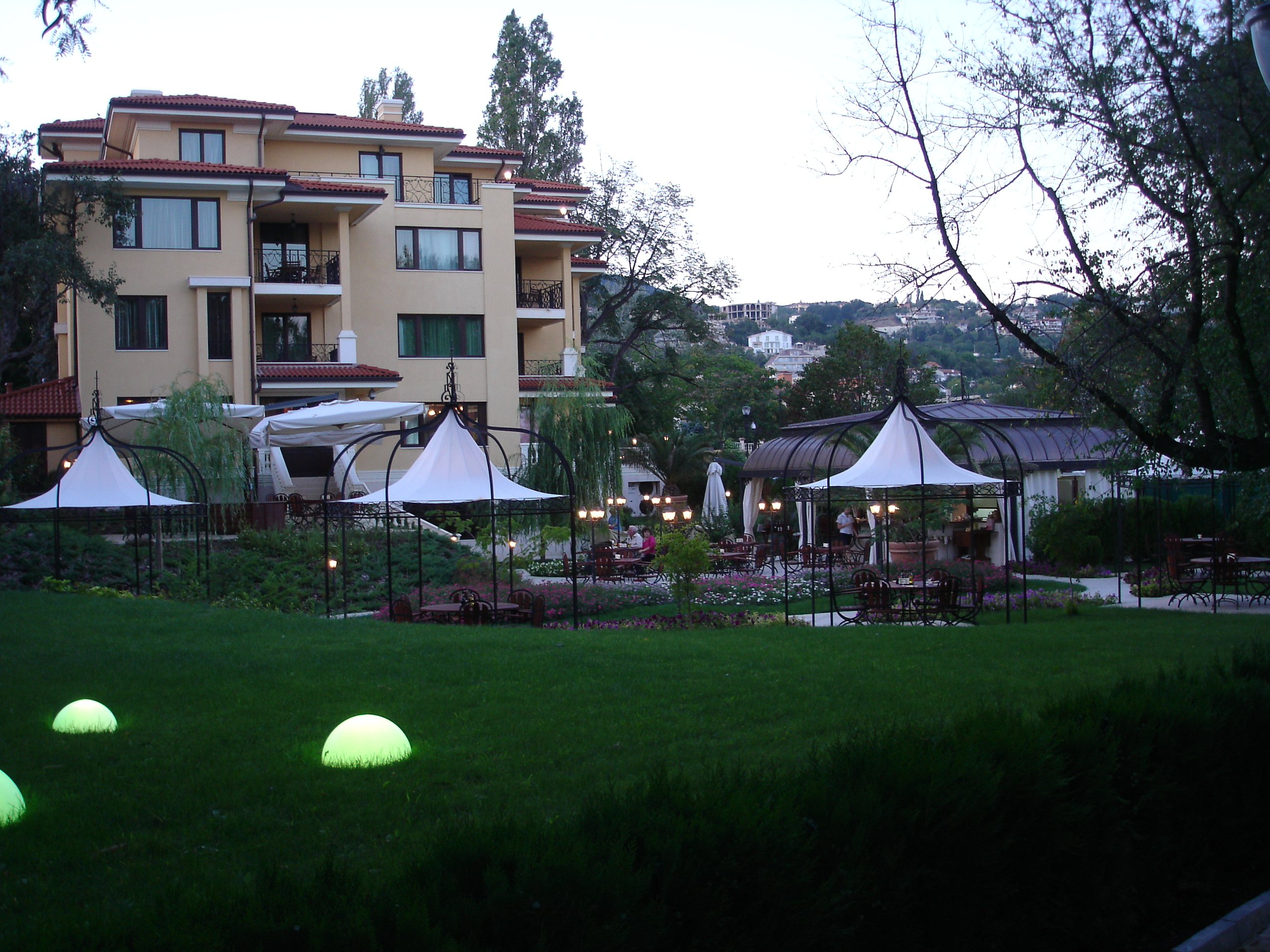 House in quarter Briz, Varna